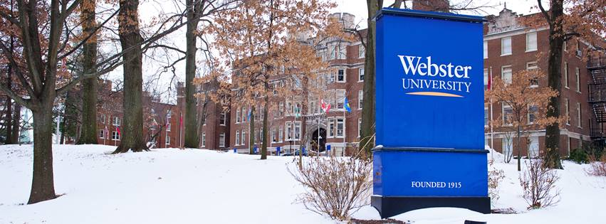 Webster University: Webster Hall in 2014